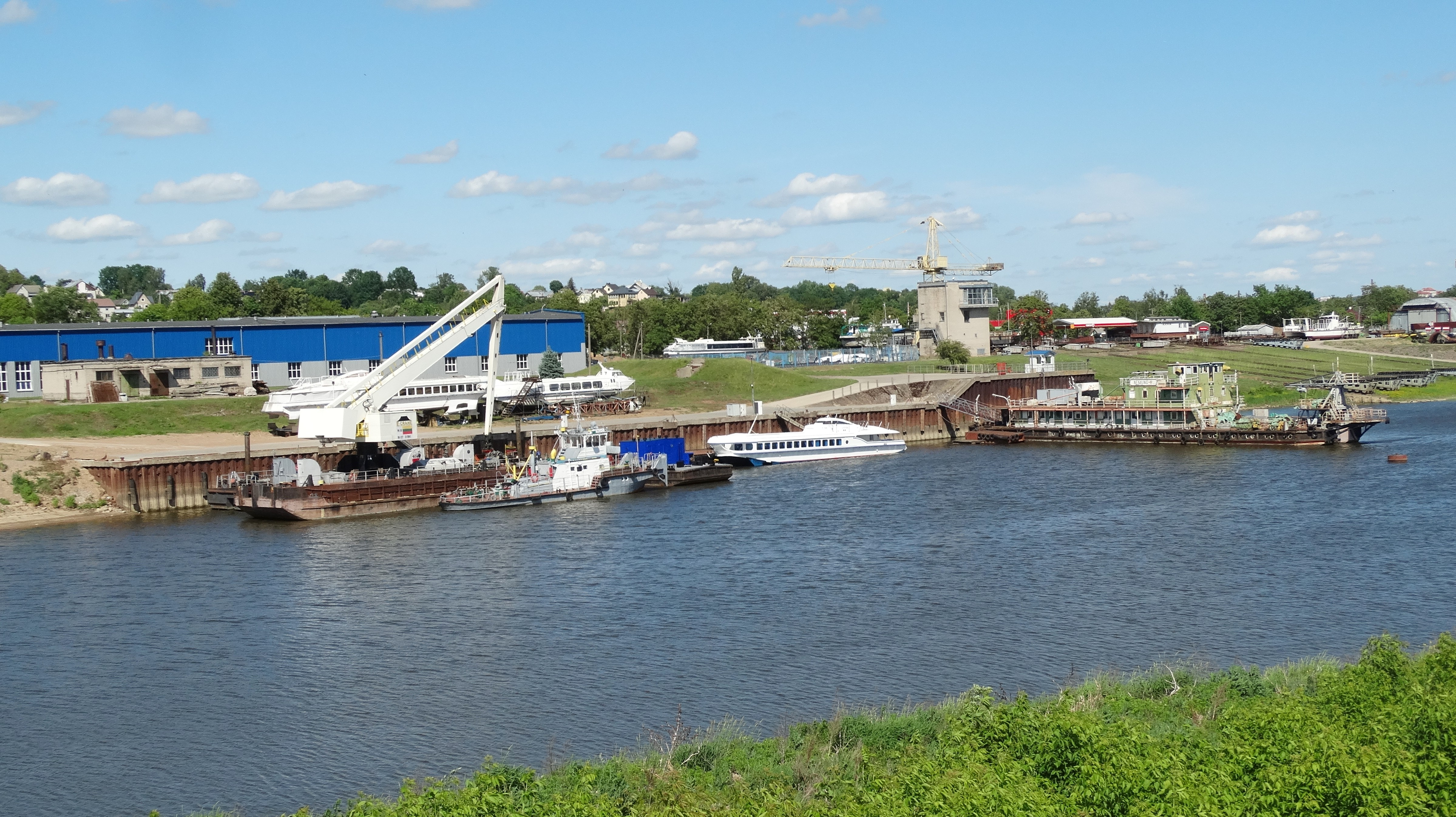 Winter Nemunas River port, Kaunas, Lithuania